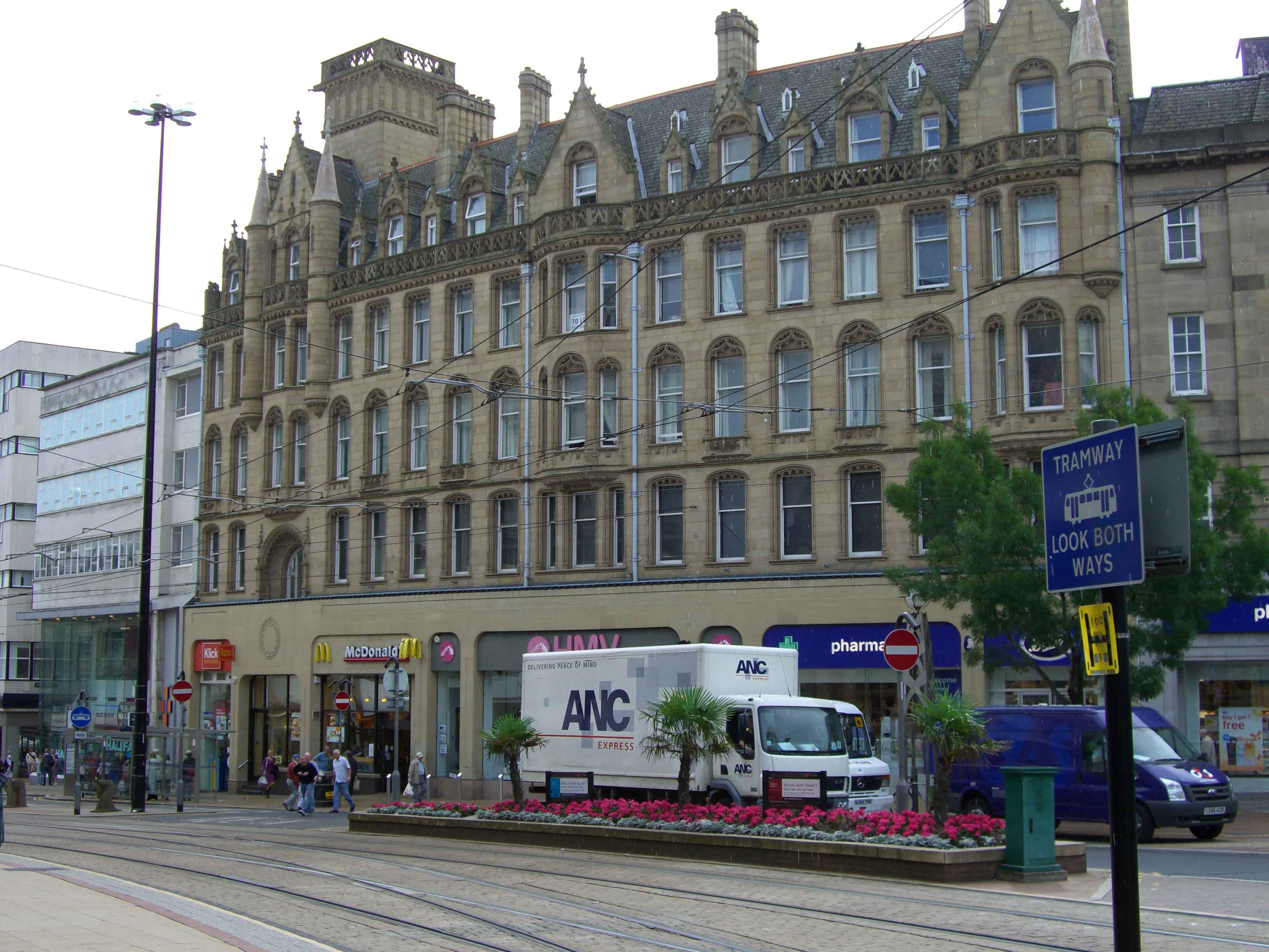 Fosters building on High Street , Sheffield